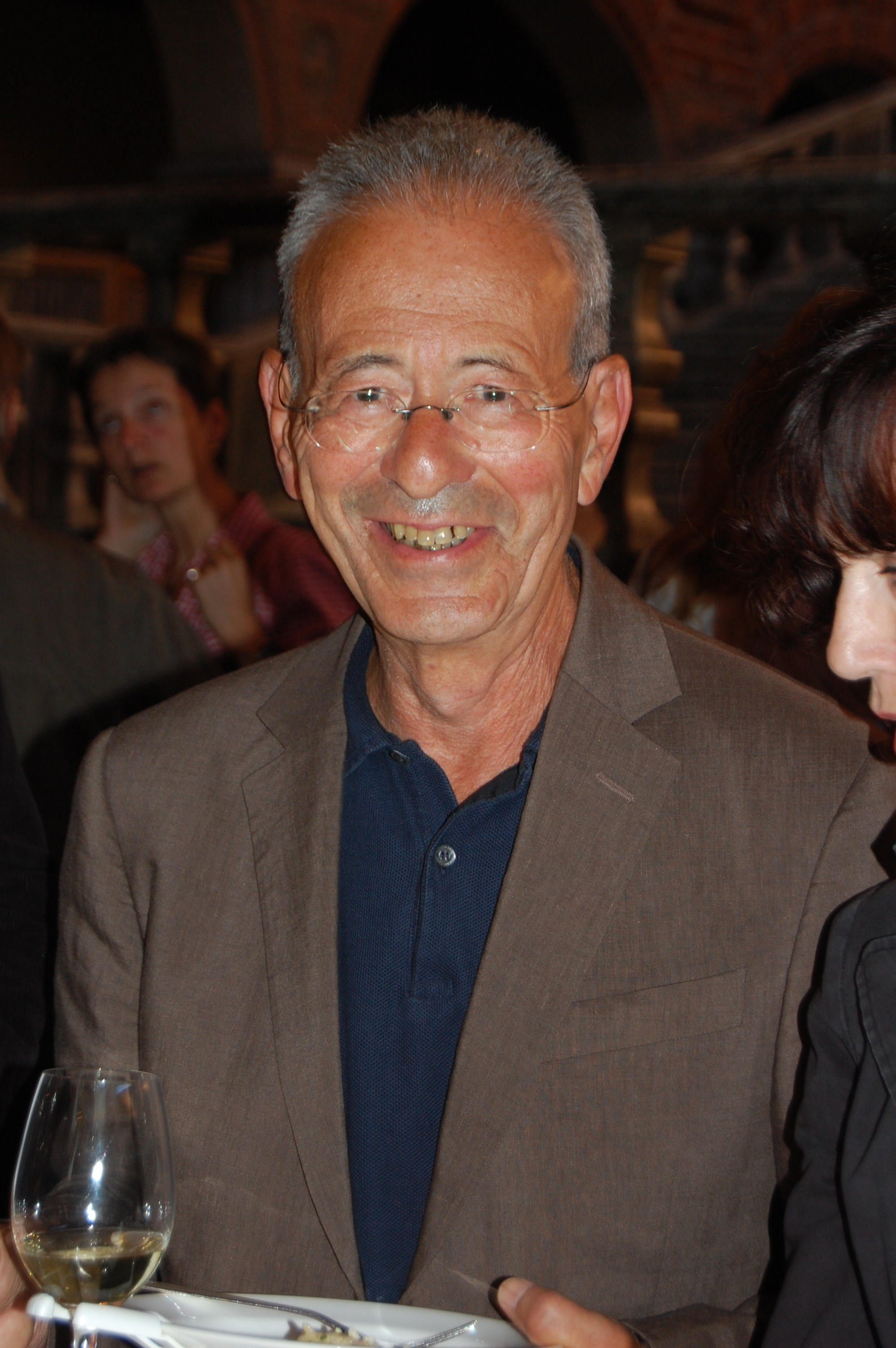 Professor Felix Mitelman. Taken in the City Hall Stockholm at the European Cytogenetics Conference reception of the European Cytogeneticists Association